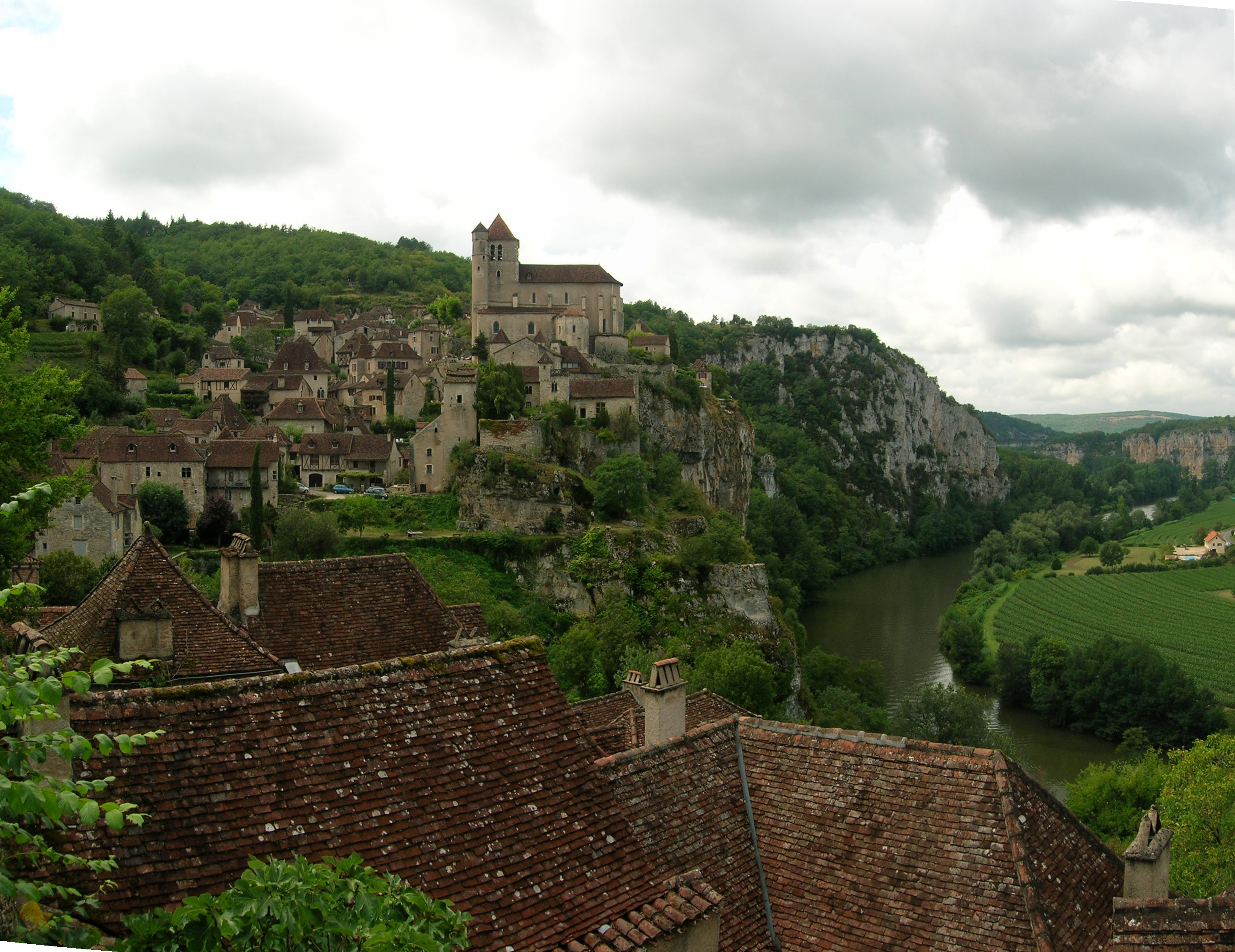 Saint-Cirq-Lapopie, Lot, France